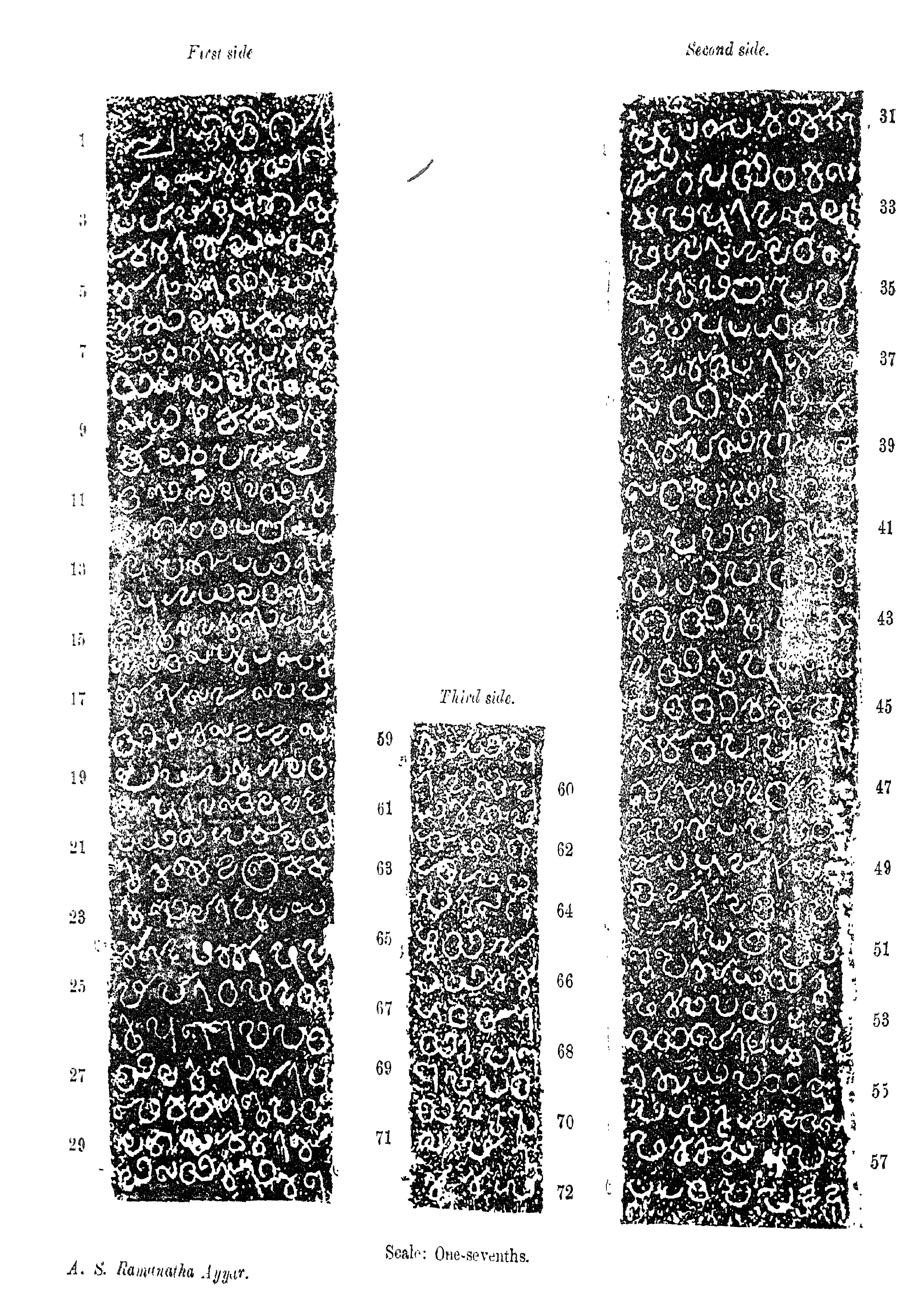 Eleventh century (1099 AD) inscription discovered from Perunna temple (Changanassery, Kerala) Material: Single granite slab Language: Old Malayalam Script: Vattezhuthu with Grantha Notes Royal order of Kodungallur Chera king Rama Kulasekhara (1089 - 1122 AD) Mentions "Nalu Thali" - the Brahmin council of the Chera king of Kodungallur Mentions "Aranthai" - a kind of war tax